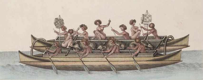 Detail from drawing made by Sigismund Bacstrom on his voyage around the world 1792-1795